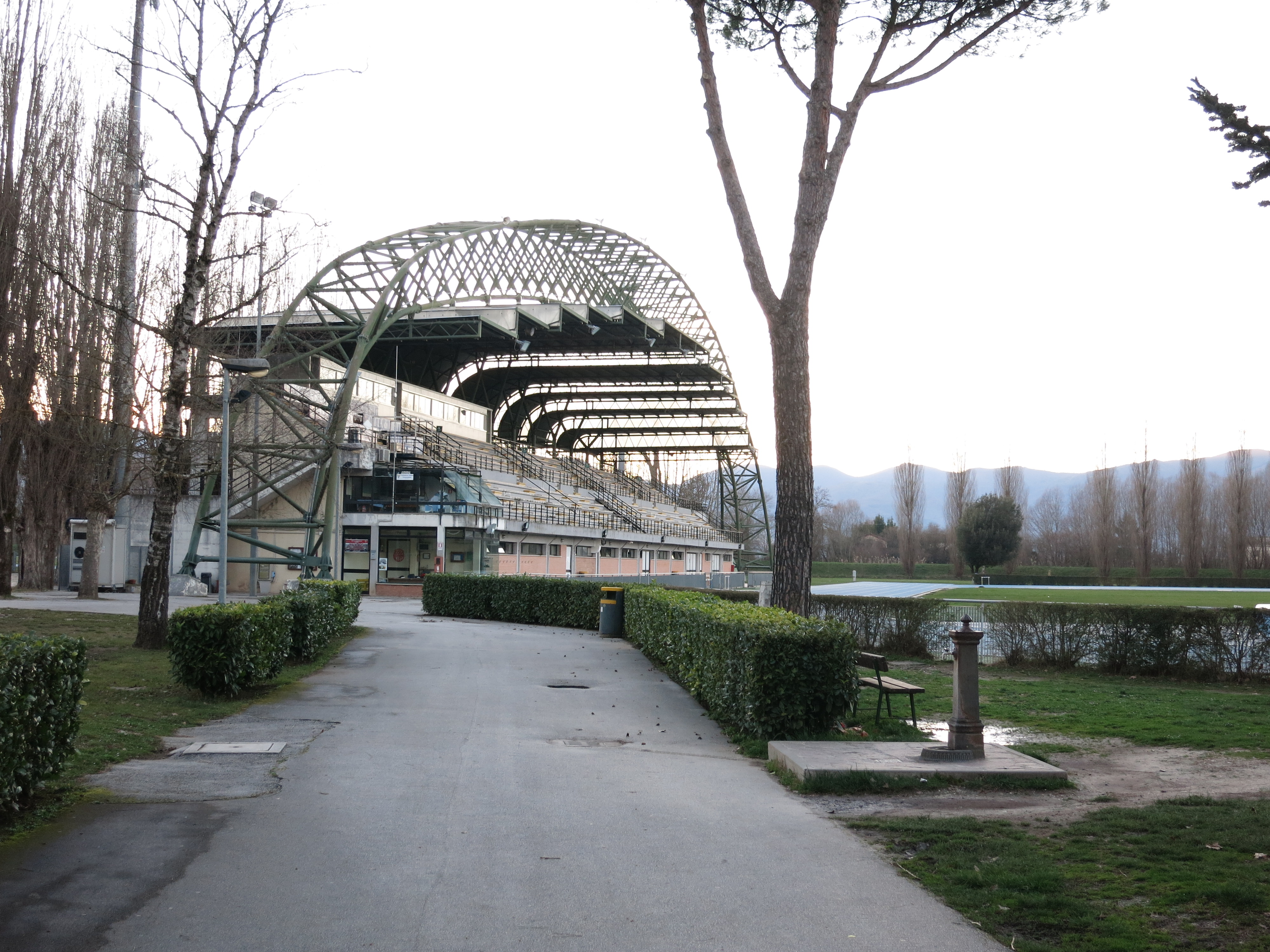 The "Velino" grandstand as seen from the main entrance on Leoni square - Stadio Raul Guidobaldi, athletics venue in Rieti, Lazio, Italy